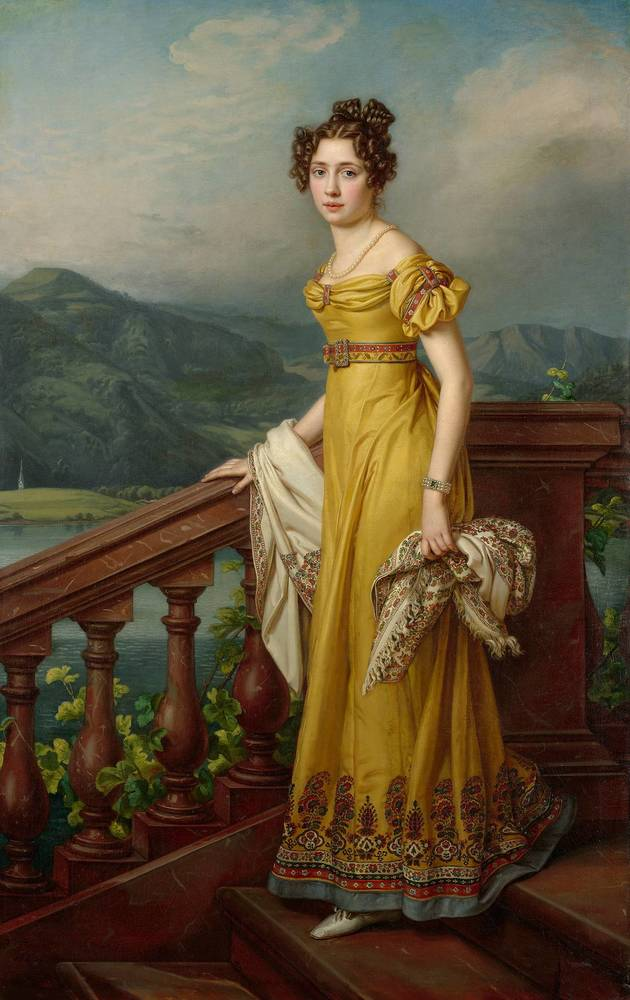 Portrait of Amalie, Queen of Saxony